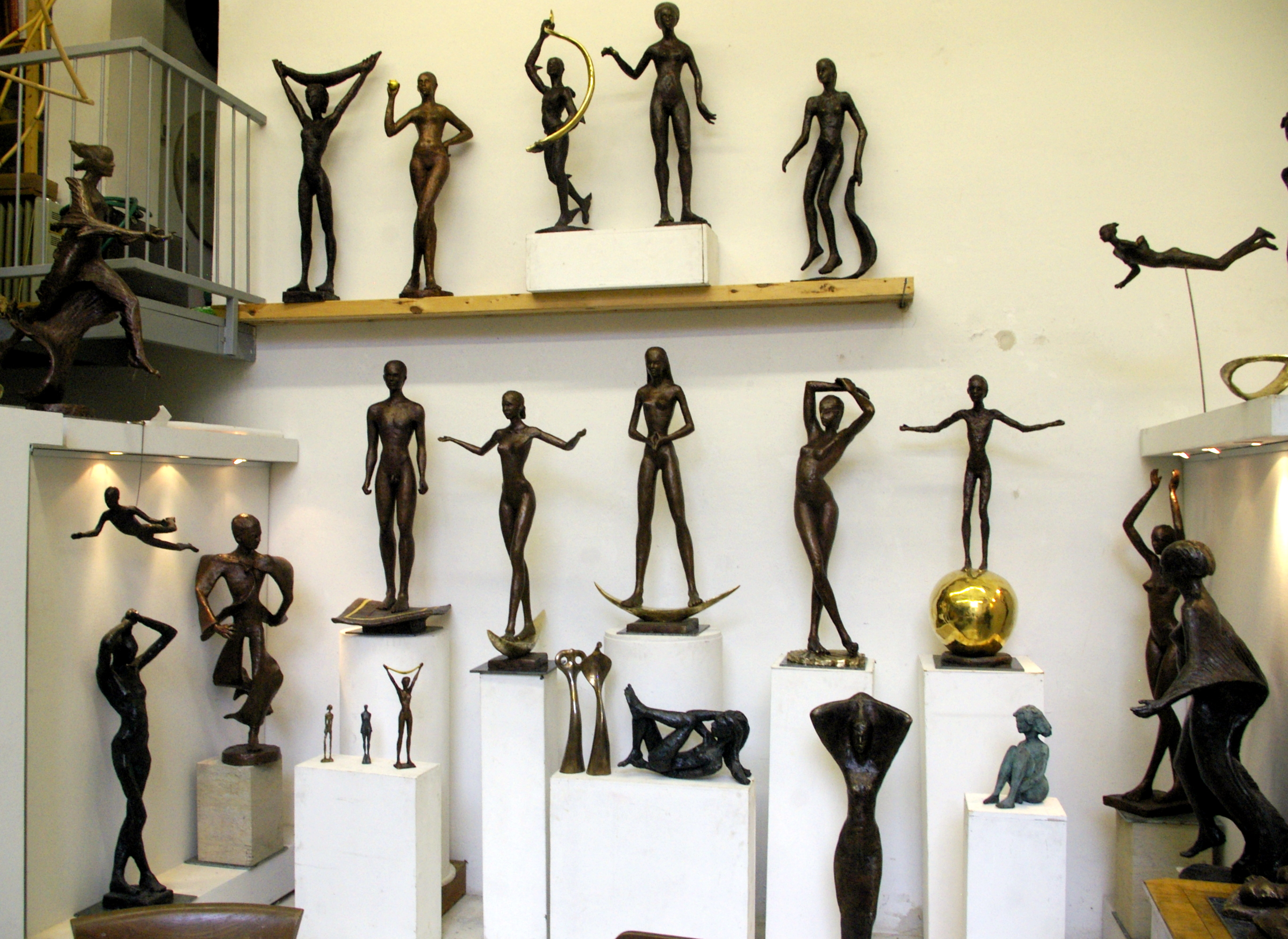 Display at the artists studio at the opendoor-day